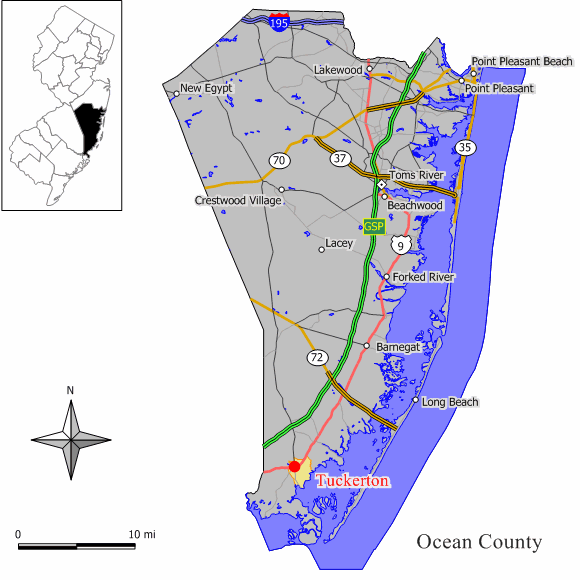 Source: Jim Irwin Original work by Jim Irwin, December 2005.